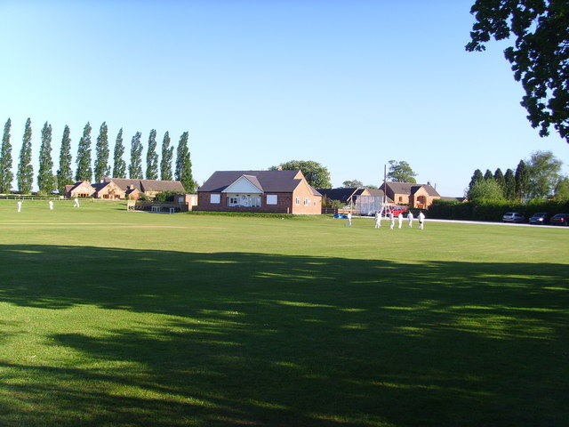 Penkridge Cricket Club The Cricket Club was founded in 1950 at Pillaton, just outside Penkridge.